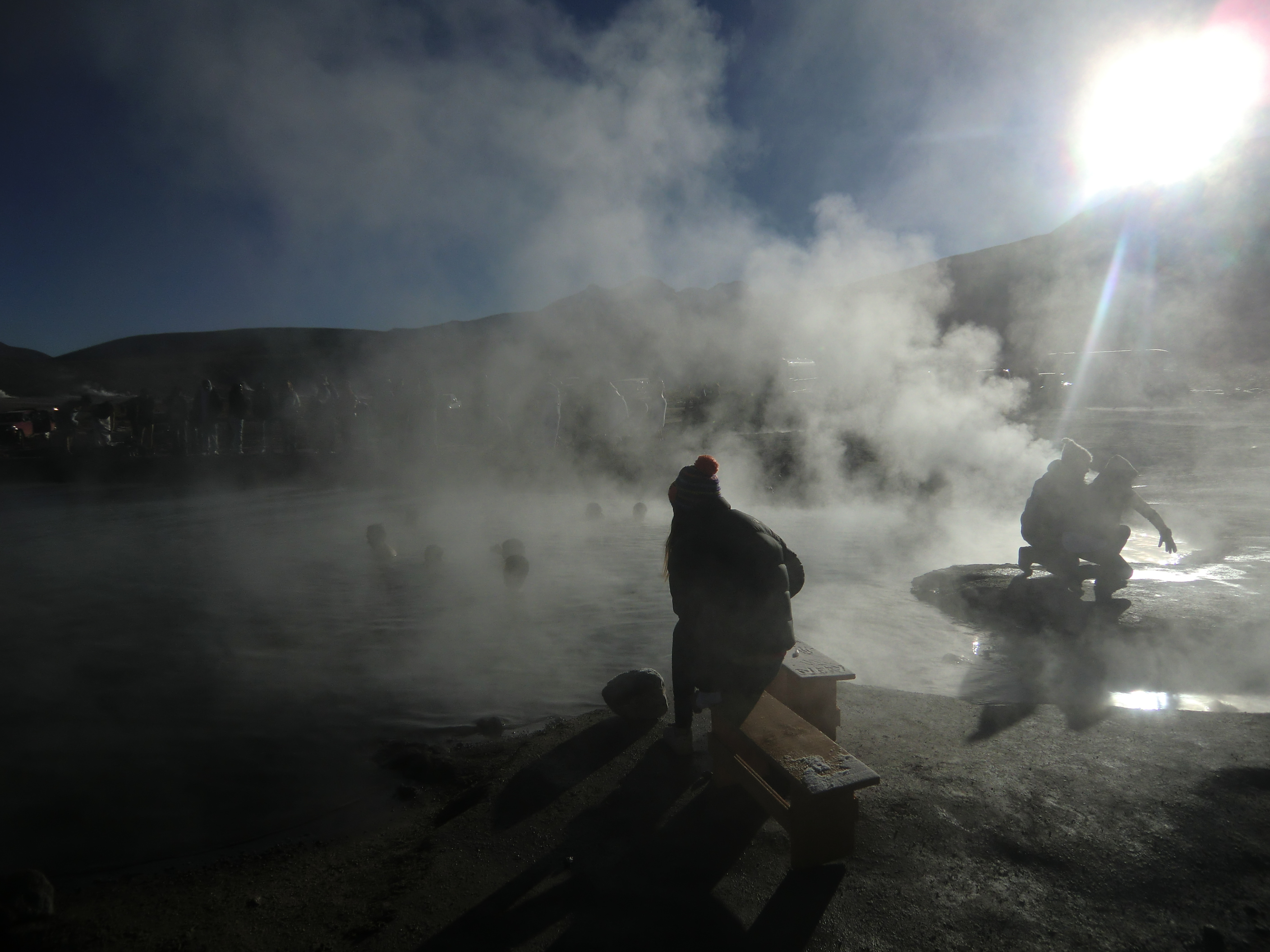 Geyser of Tatio, the tourists can bathing in termal waters